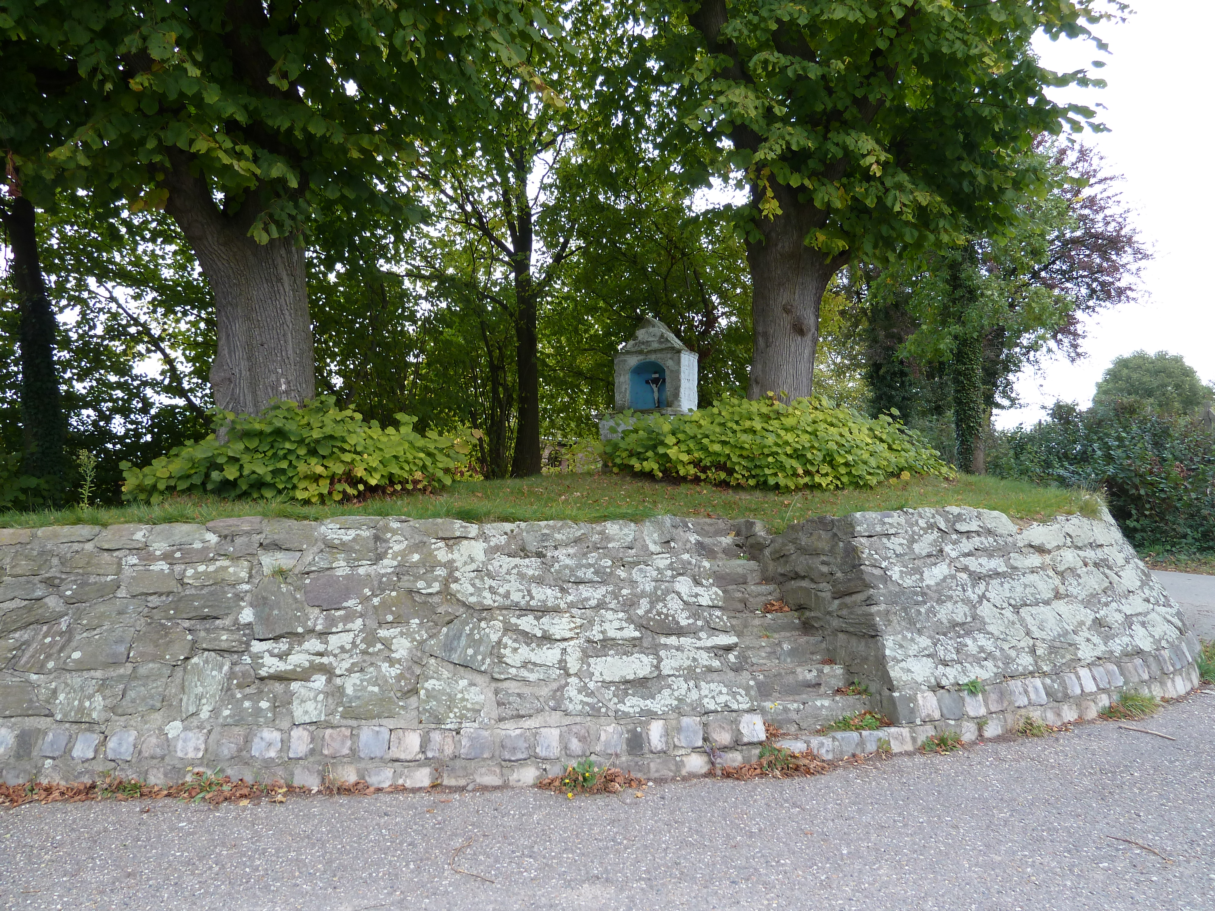 Chapel at crossing Schansweg-Rijksweg, Berg, Limburg, the Netherlands